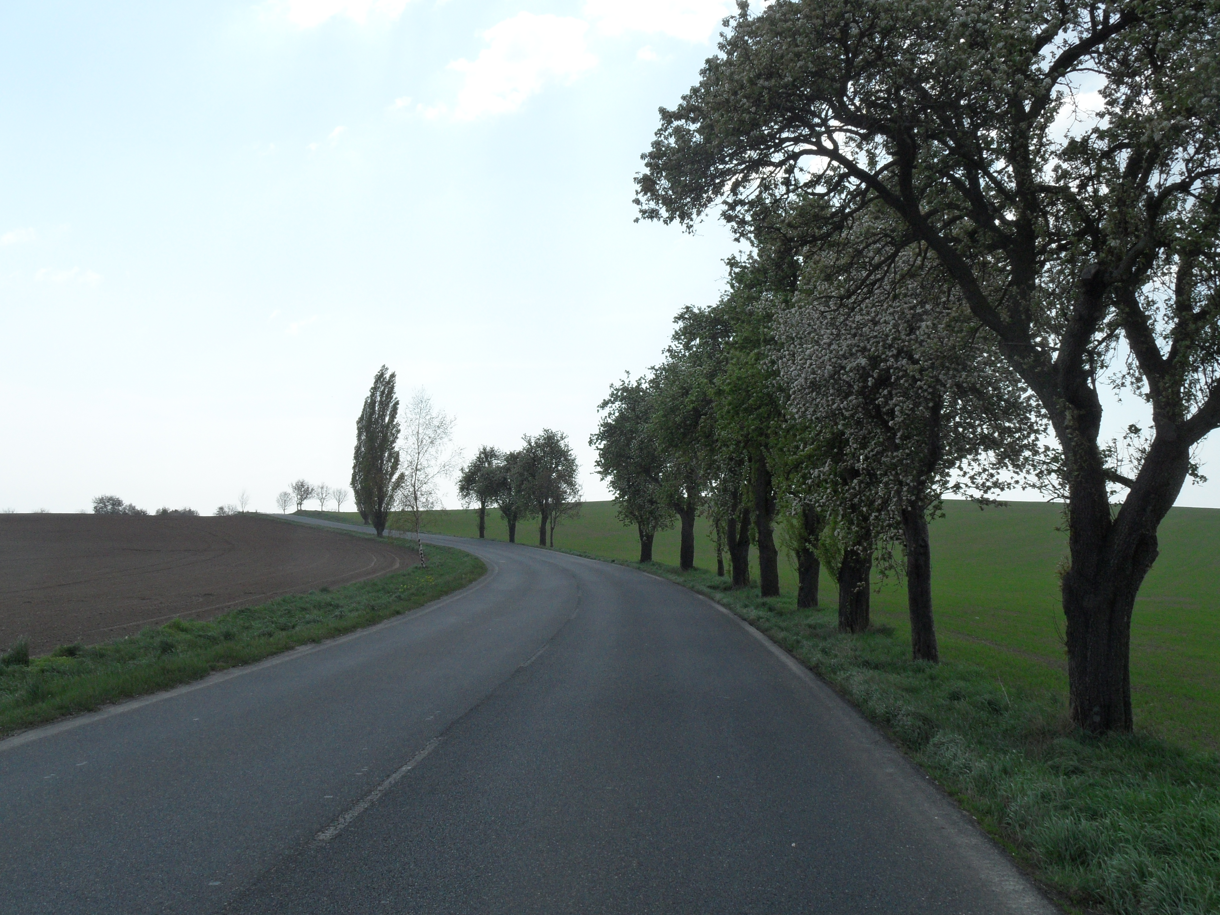 Road II/125: Near Kbílek, Direction to Kořenice, Kolín District, the Czech Republic.